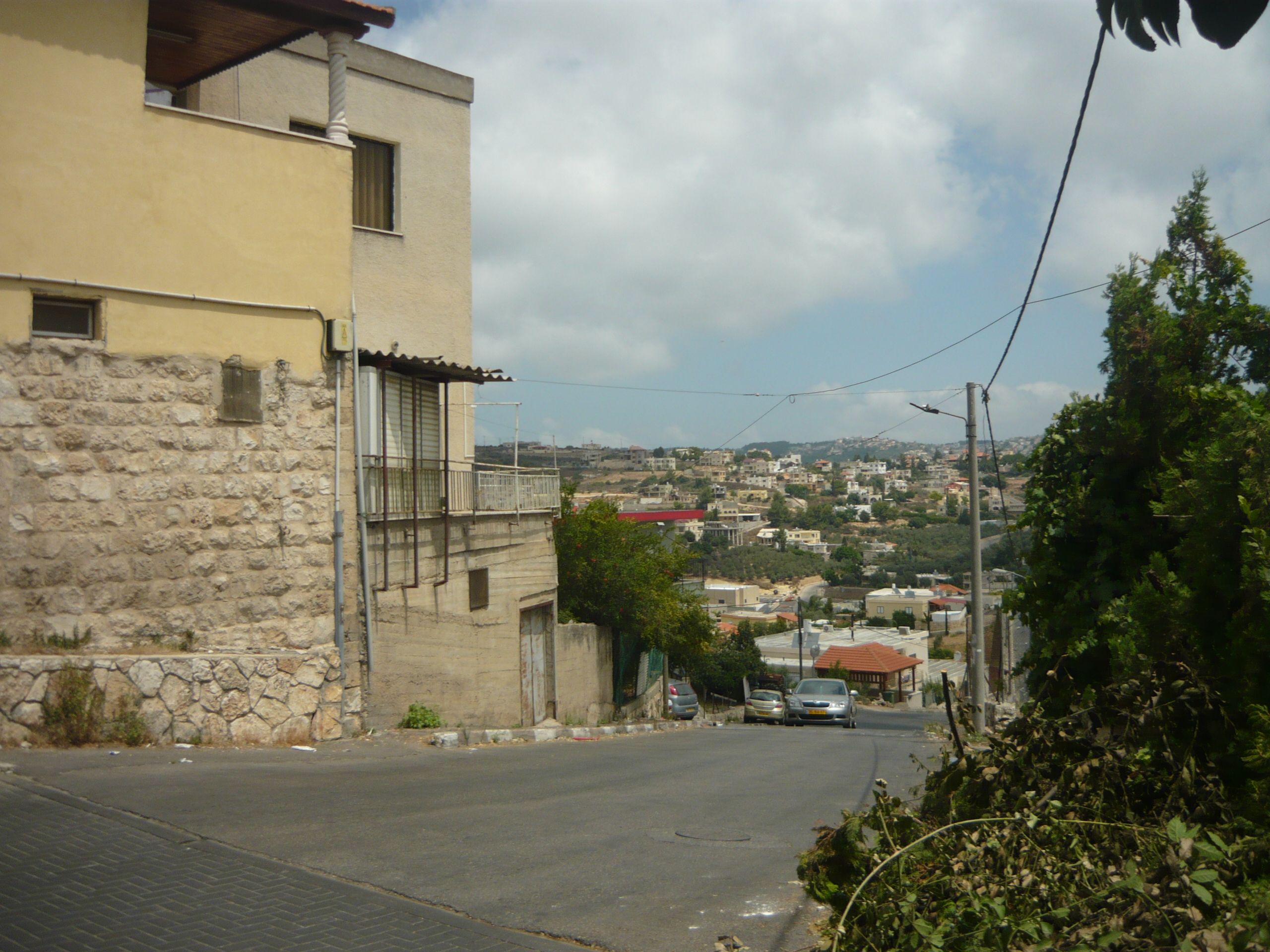 saliyat al karmel דאלית אל כרמל, מראה בגרעין הכפר העתיק